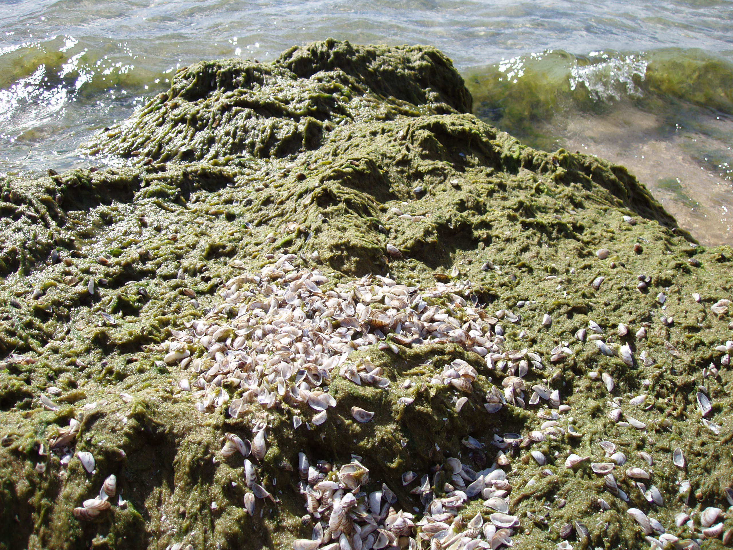 Cladophora and zebra mussels, Donner's Point, Lake Michigan. Credit: National Park Service